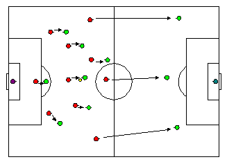 Soccer Defence Strategy in Modern System